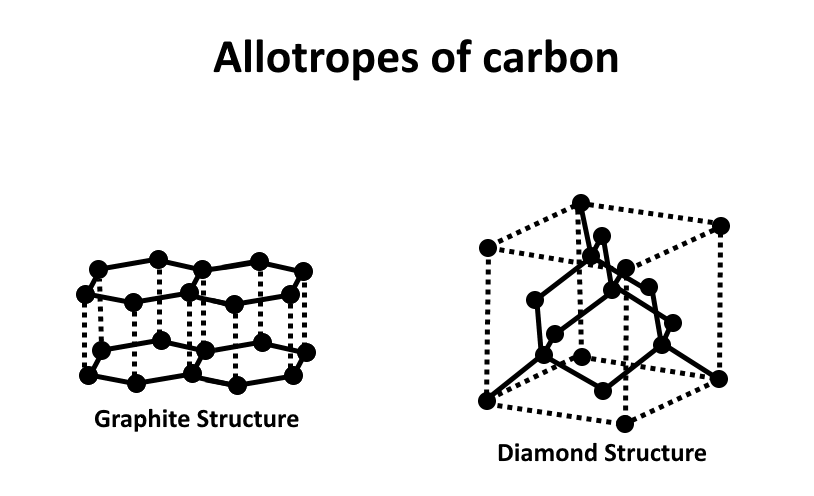 Allotropes Of Carbon. Graphite and Diamond.